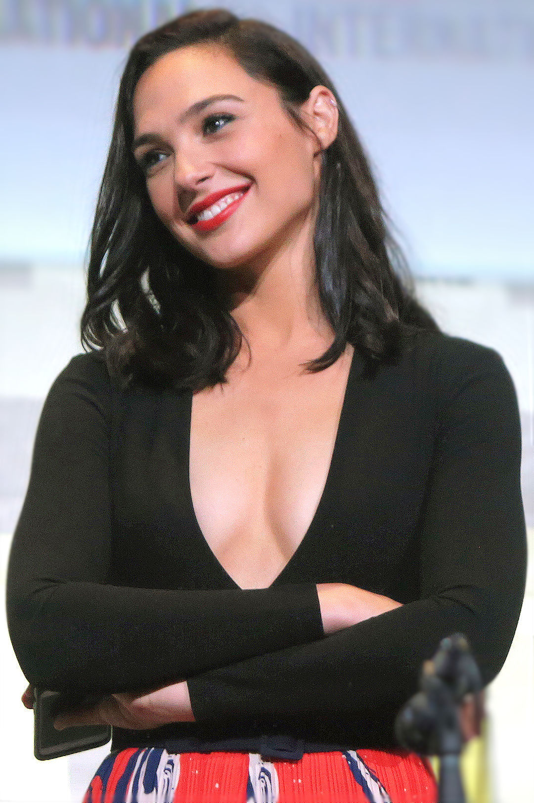 Gal Gadot at the 2016 San Diego Comic-Con International panel for the film Justice League.